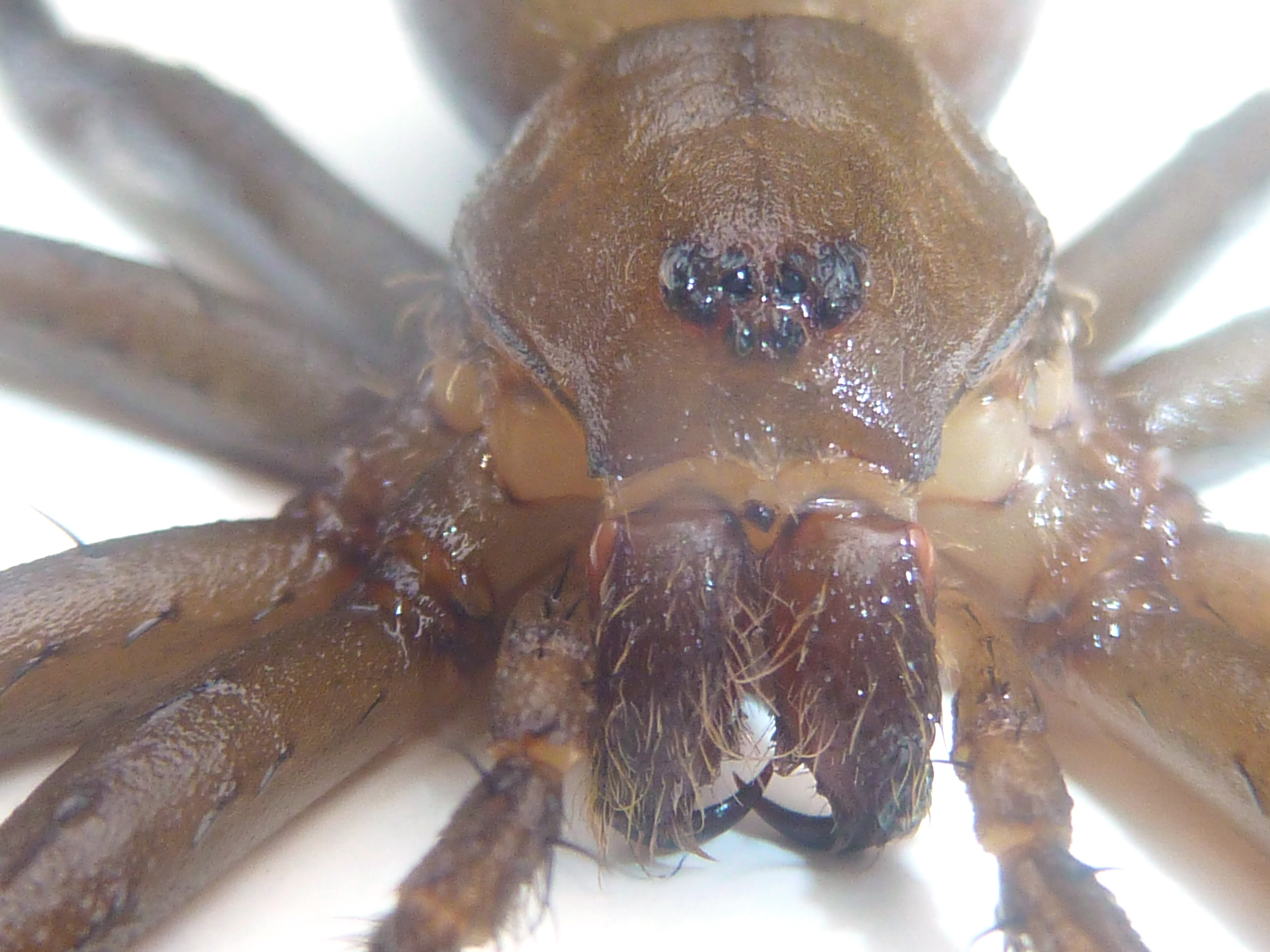 Female Nilus curtus spider collected in bulrush, in Faerie Glen, Pretoria. Structure of the epigynum confirmed identification.